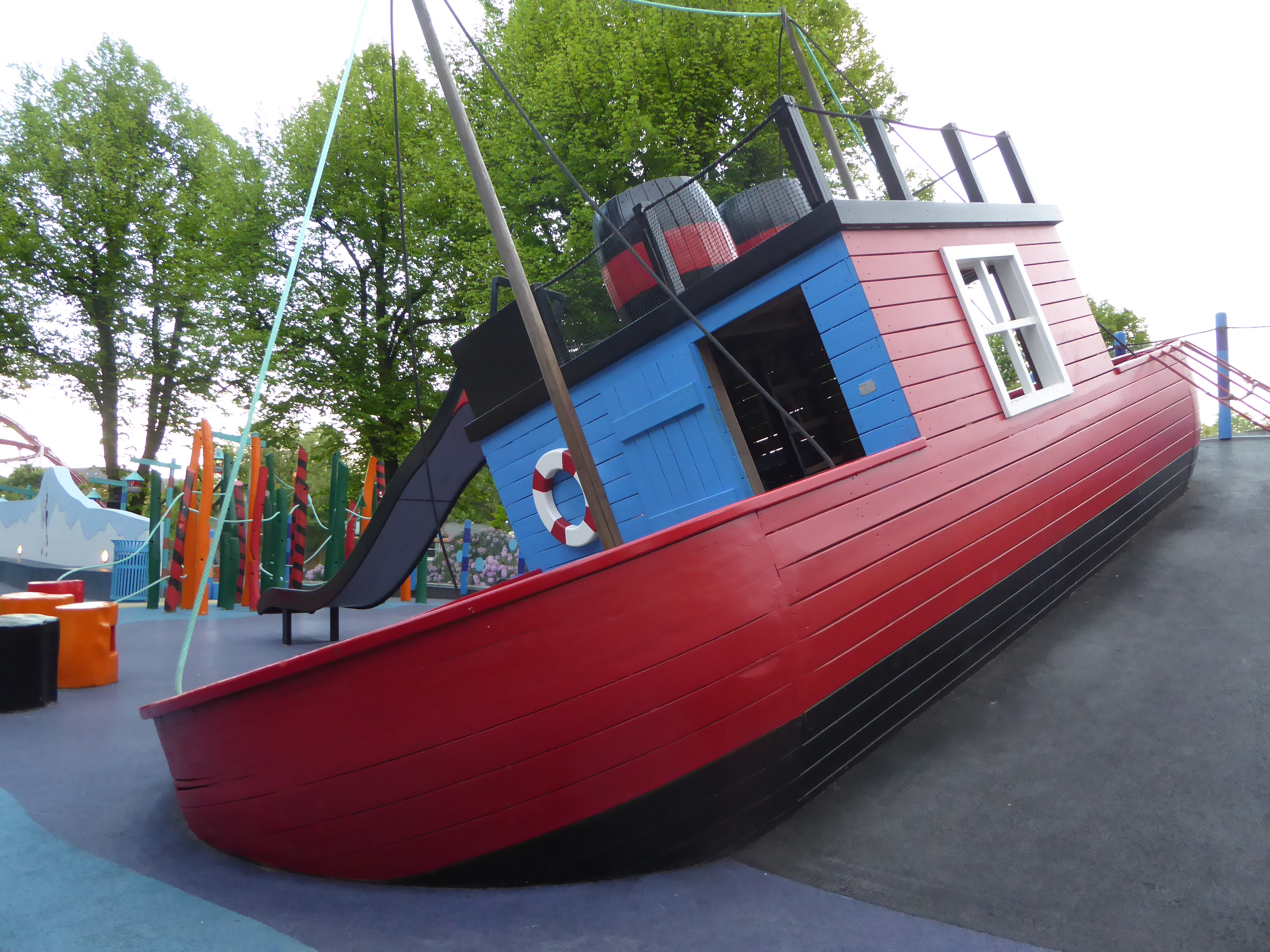 The ship Mary from the Danish comic Rasmus Klump in the area Rasmus Klumps Verden in the amusement park Tivoli in Copenhagen.